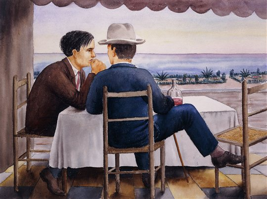 On the Terrace (selfportrait)